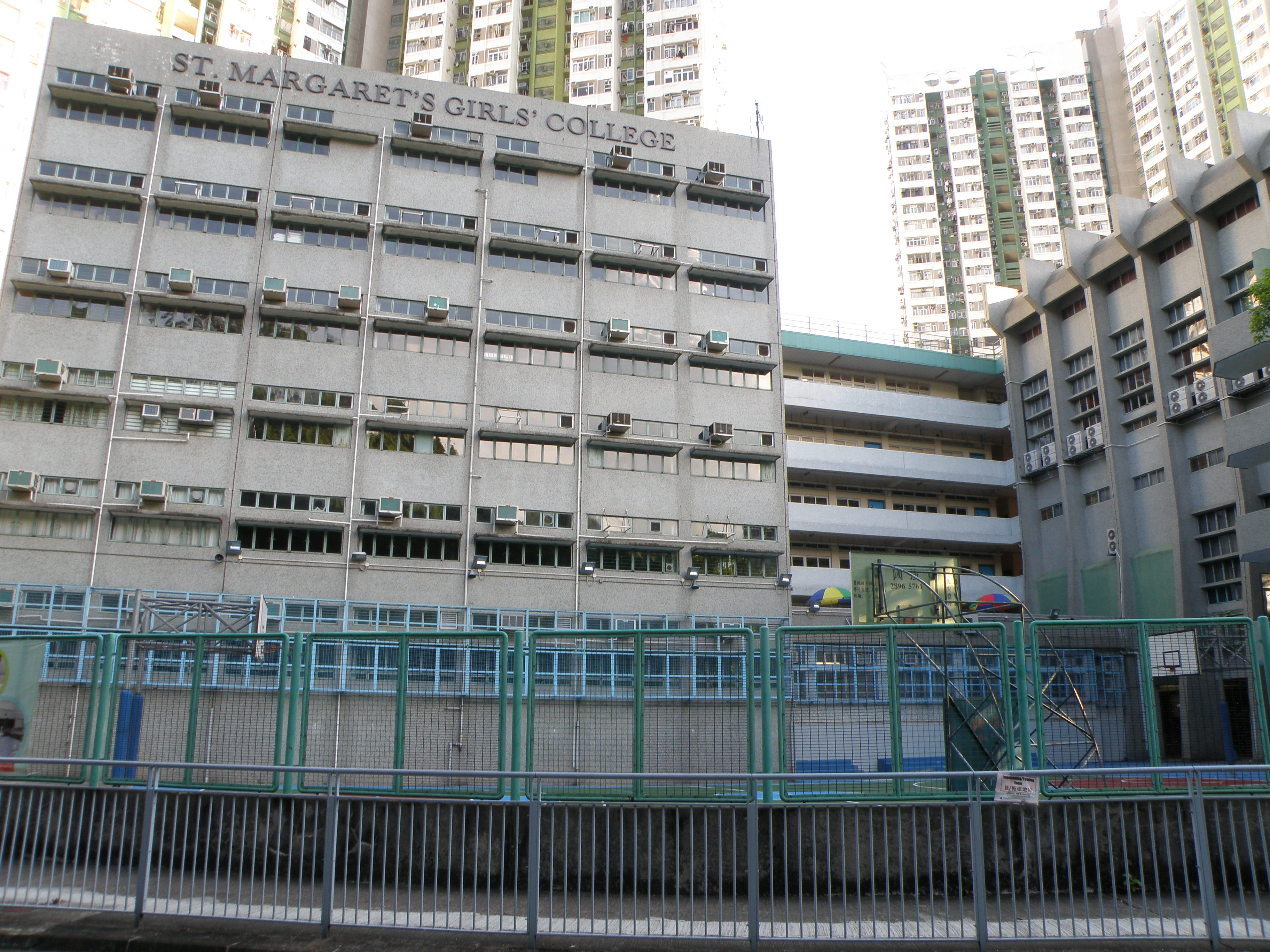 St. Margaret's Girls' College in Tai Wai, Hong Kong.